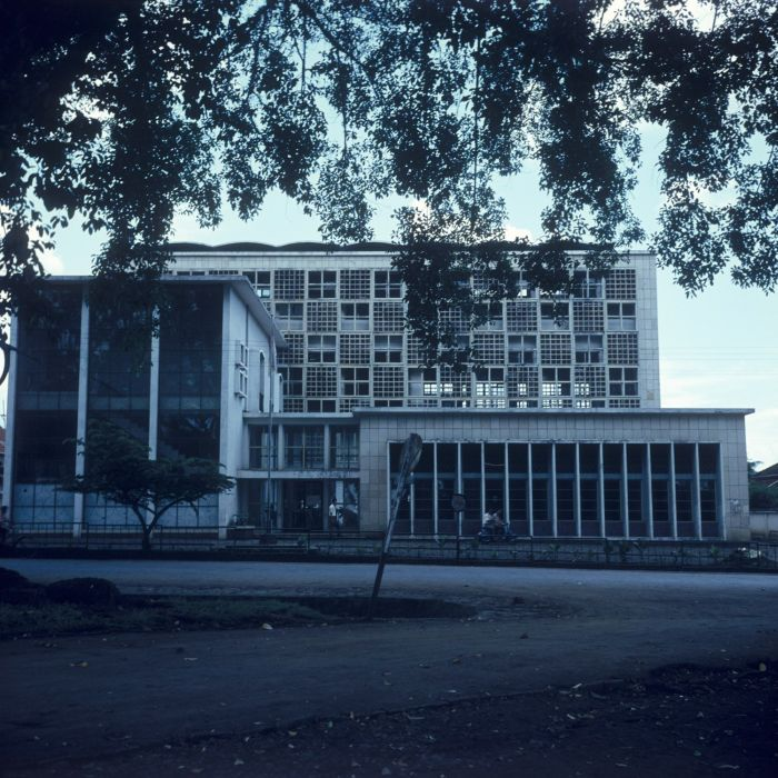 The Roman Catholic Parahiangan University